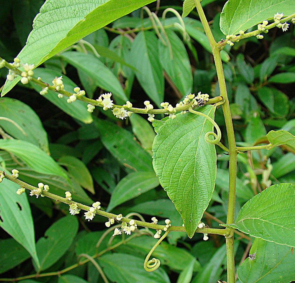 This is a species native to much of the Neotropics. Its best known name is Chewstick. Photo from southeastern Nicaragua. Rhamnaceae.